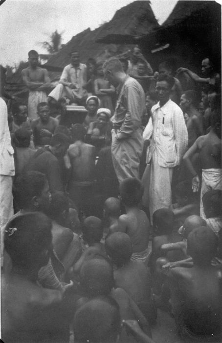 Jaap Kunst making phonographic recordings in Nias